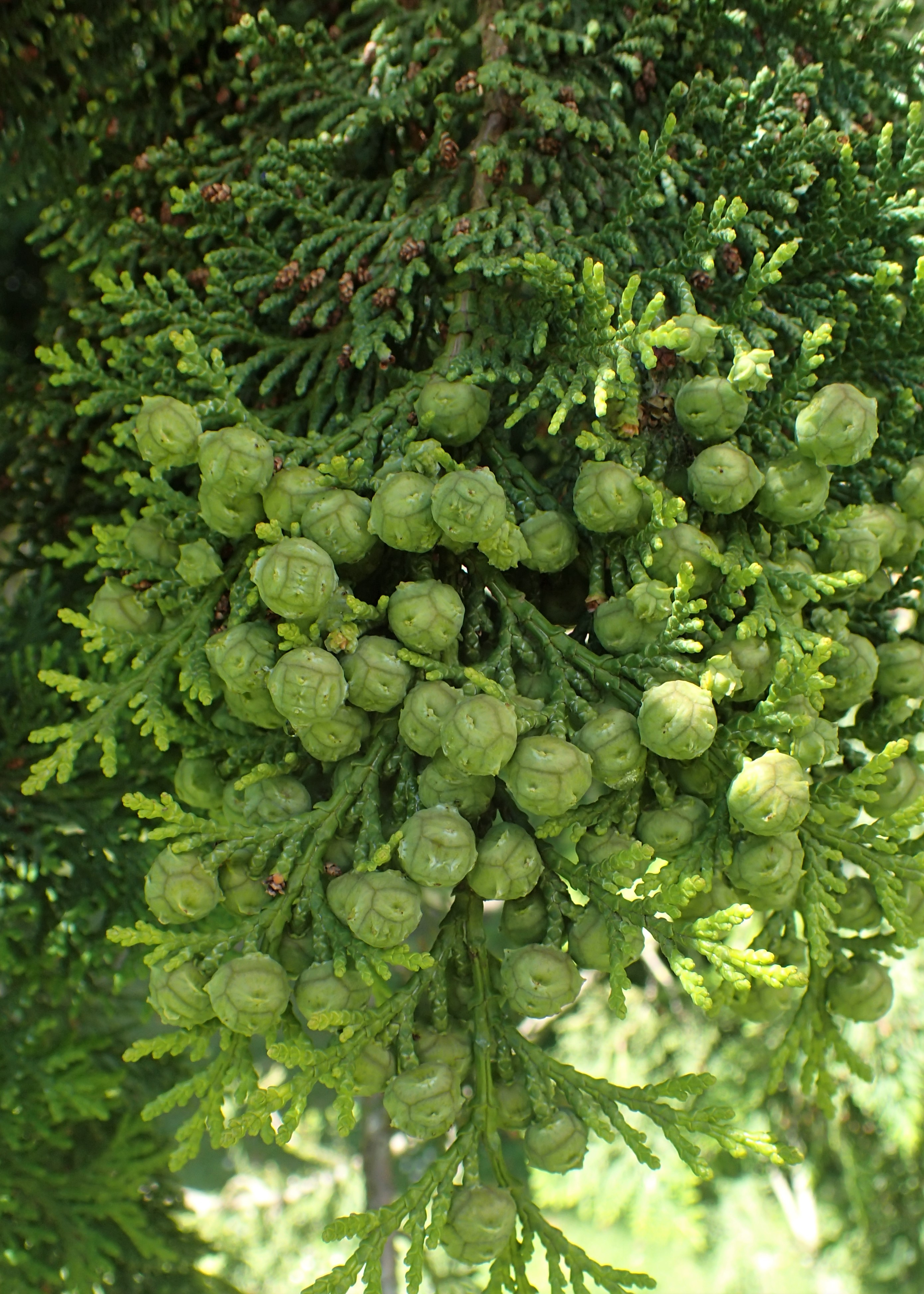 Chamaecyparis obtusa in Christchurch Botanic Gardens